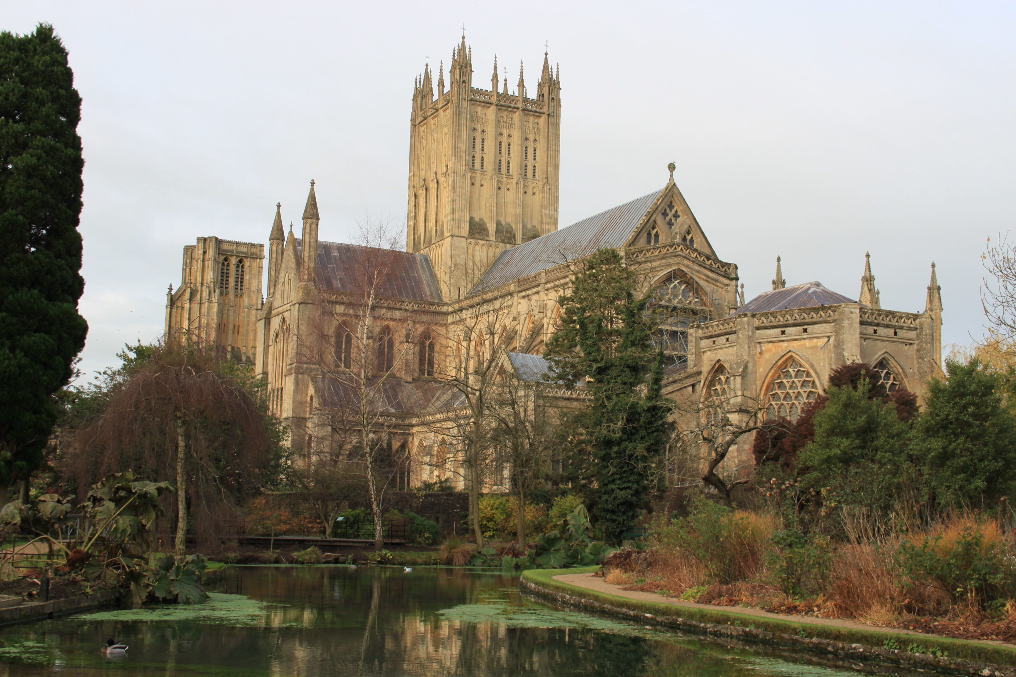 Wells Cathedral from the reflecting pool at the Bishops Palace